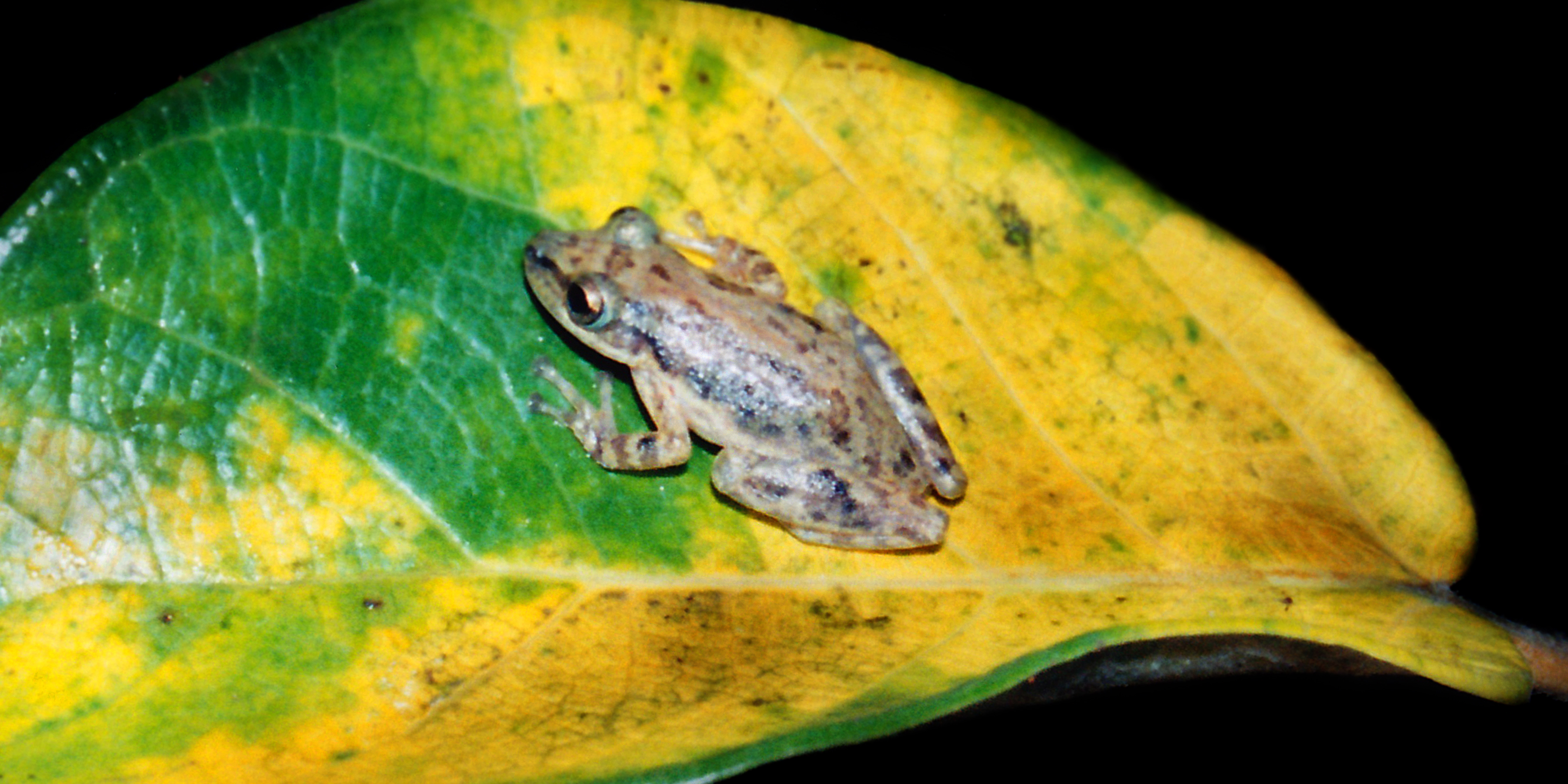 Stauffer’s Treefrog (Scinax staufferi) Municipality of Aldama, Tamaulipas, Mexico. Photographed on 30 May 2005 by William L. Farr. This image was originally photographed with film and later scanned from a print.